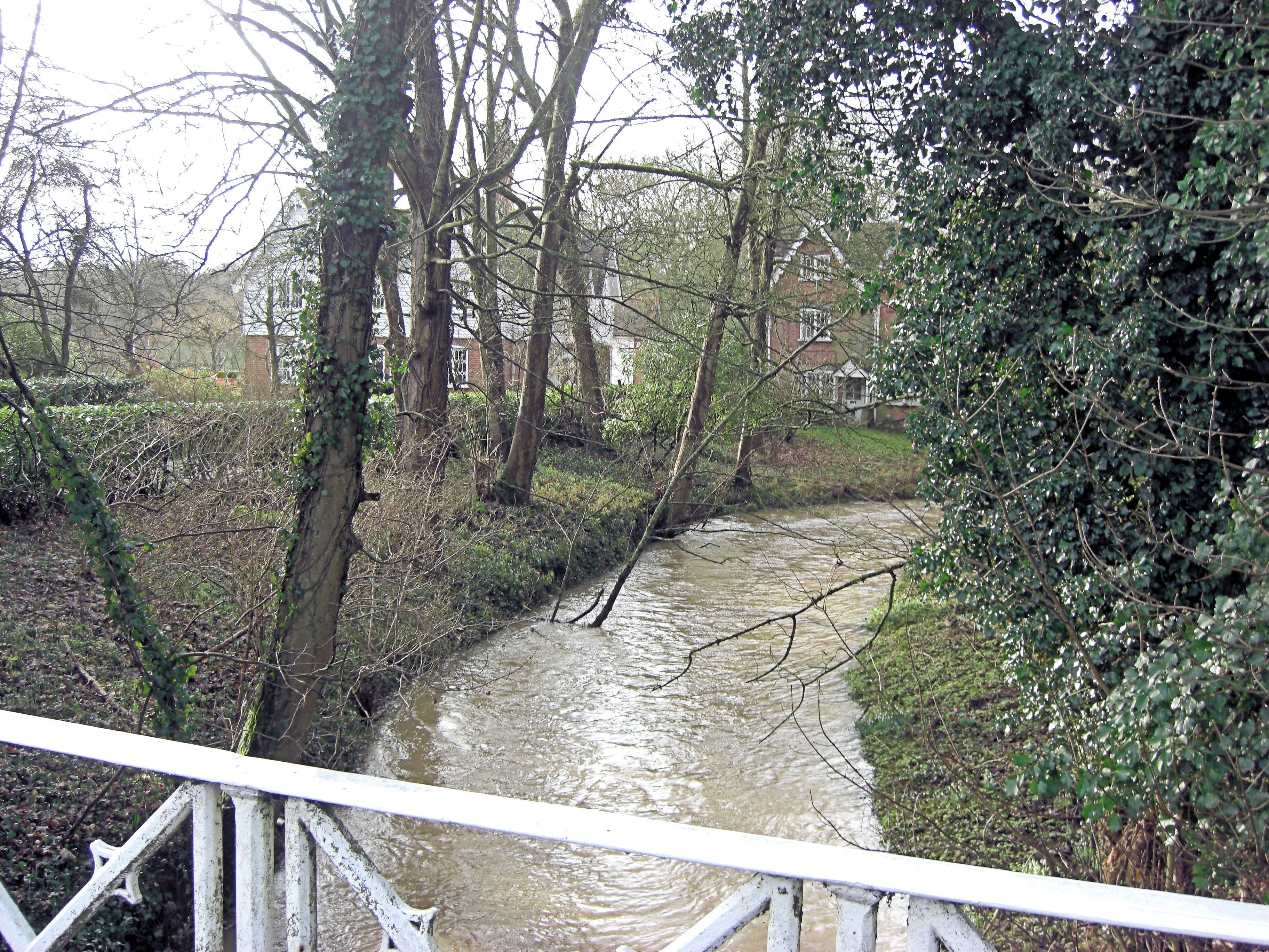 Bow Brook passes under Vyne Road